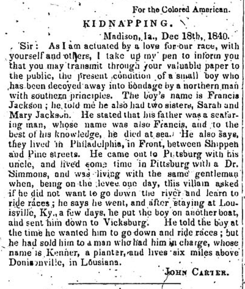 This is an announcement published in the newspaper "The Colored American."